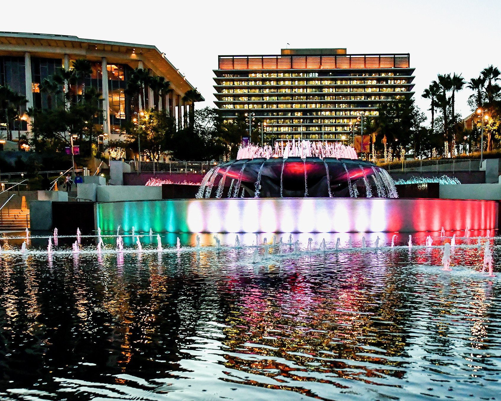 The Grand Park fountain in Los Angeles is lit up in the colors of the Mexican flag in recognition of the victims of the Mexico Earthquake.